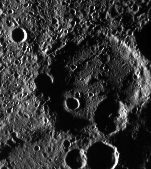 Roerich crater on Mercury. Cropped from MESSENGER Narrow Angle Camera image. Emission Angle: 1.2 Incidence Angle: 85.0 Latitude: -83.4 Longitude: 317.9 Phase Angle: 85.9